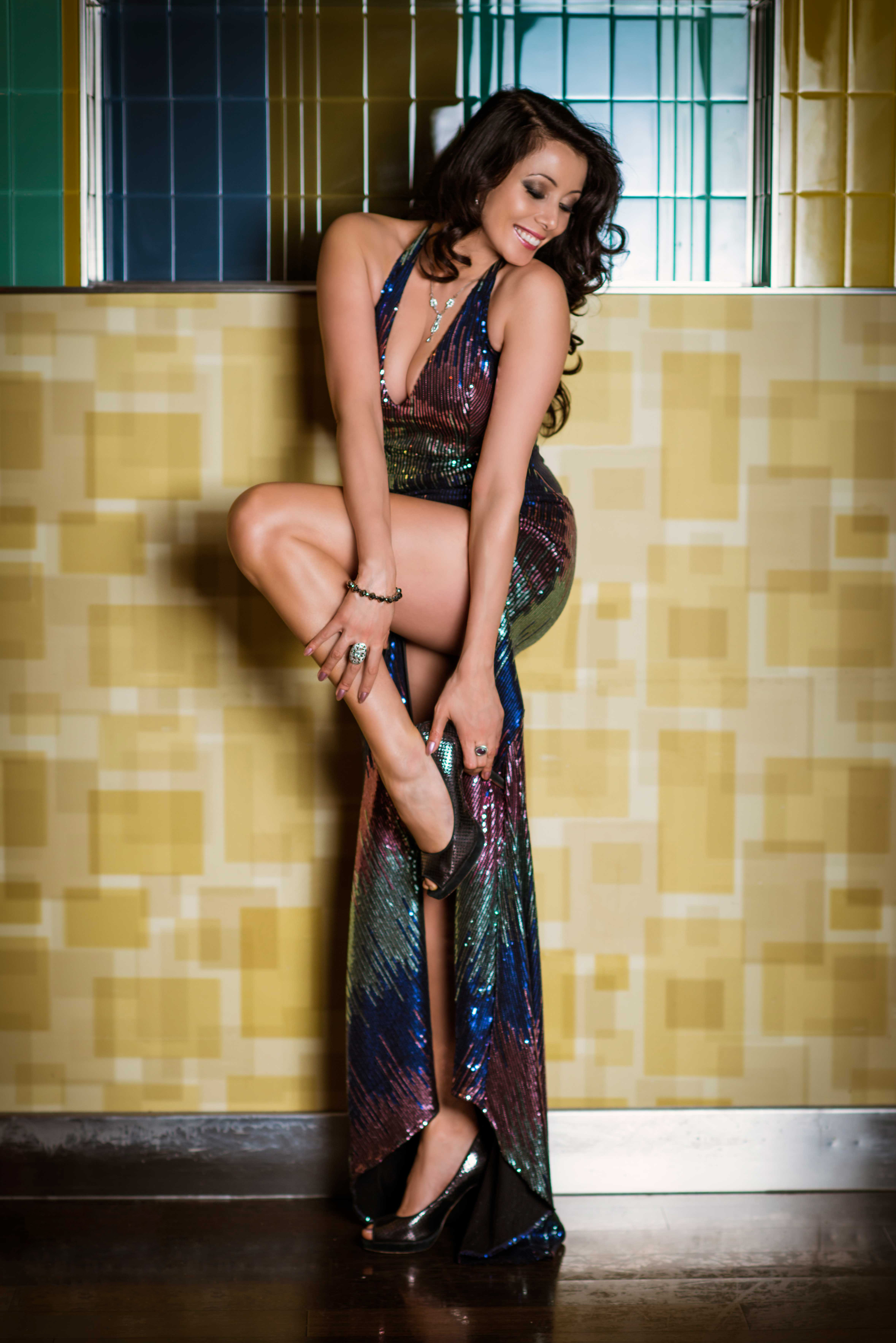 Rachel Grant